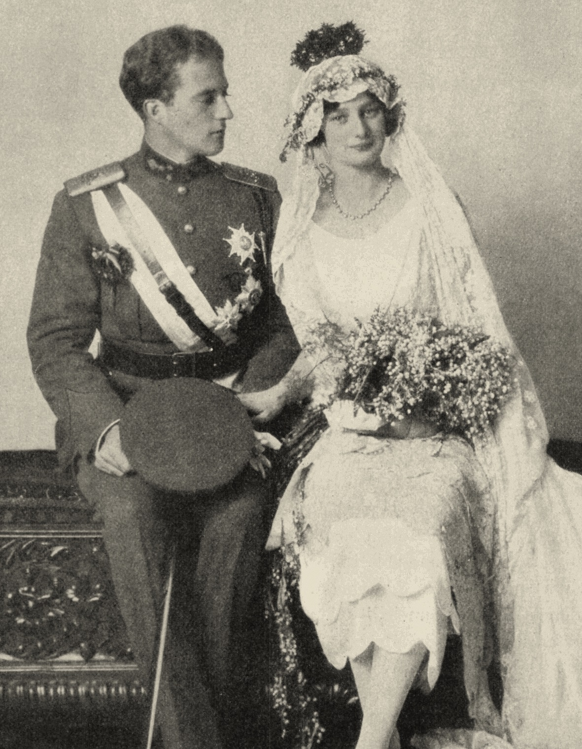 Crown Prince Leopold (III) of Belgium and Princess Astrid of Sweden on their wedding day, photographed immediately after the civil wedding ceremony in the State Hall at Stockholm Palace. Wedding officiant was Mr. Carl Lindhagen, Mayor of Stockholm.